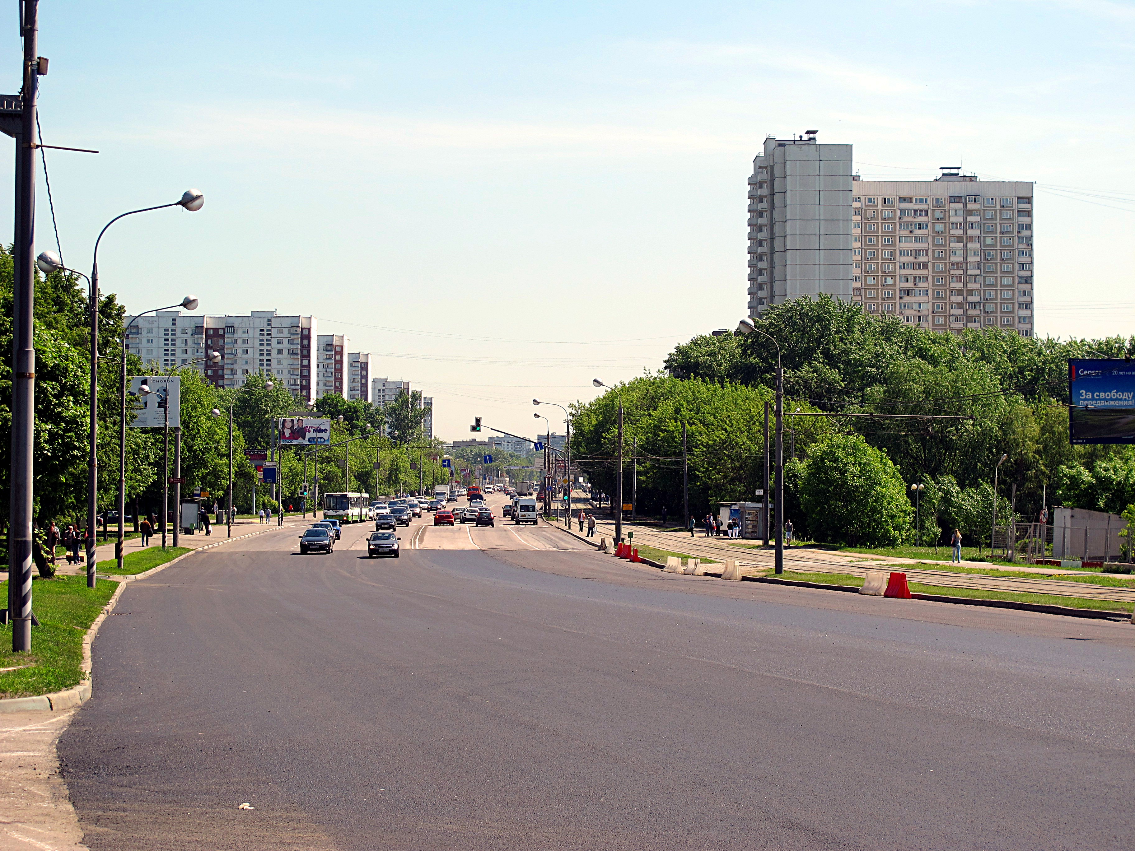 Moscow, Proezd Dezhneva